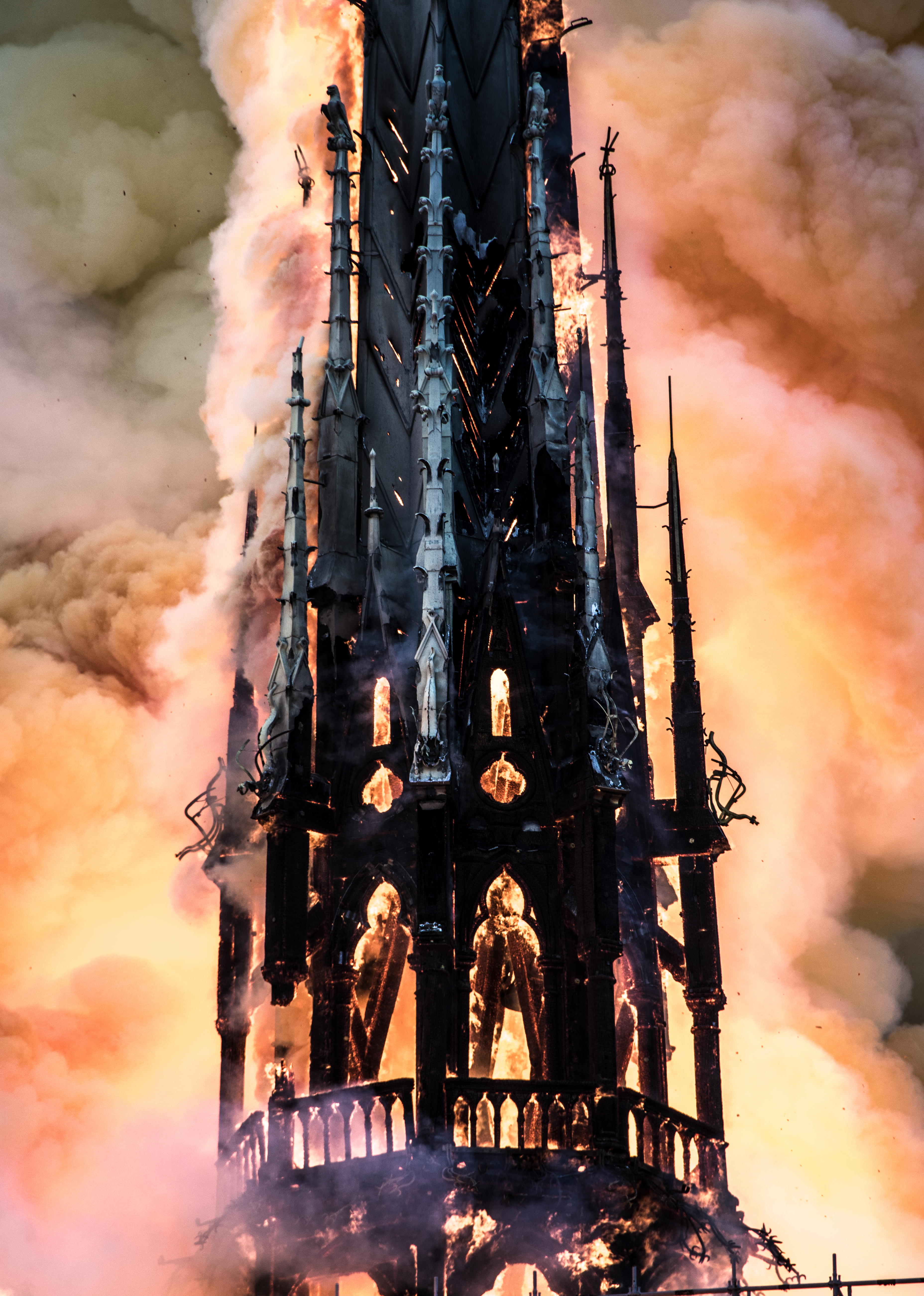 Photography of Notre Dame's spire taken from the Saint Louis bridge during the 15th April 2019 fire.